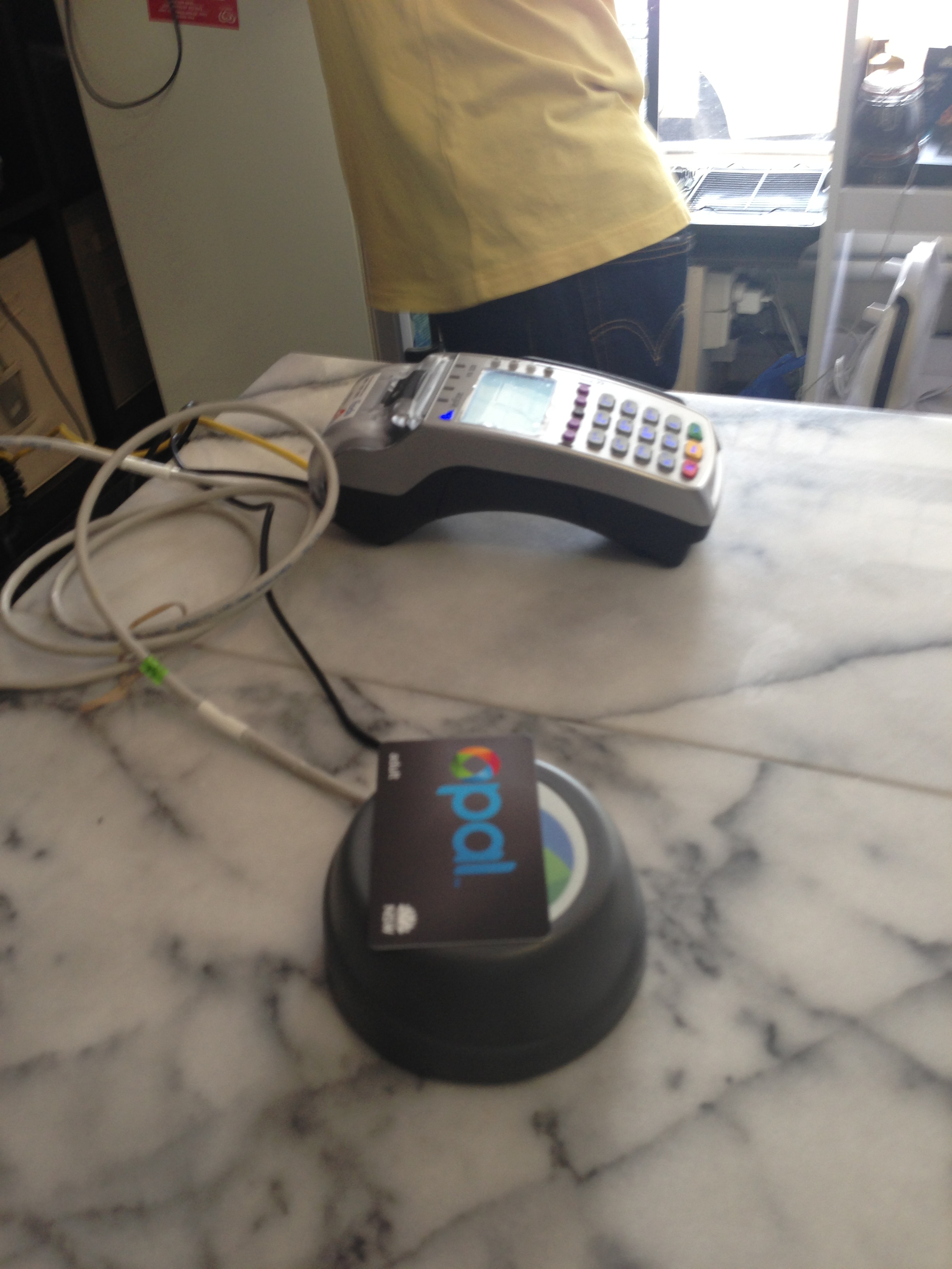 A retailer topup of an Opal Card in local Sydney. One of the ways to add on money to your Opal Card